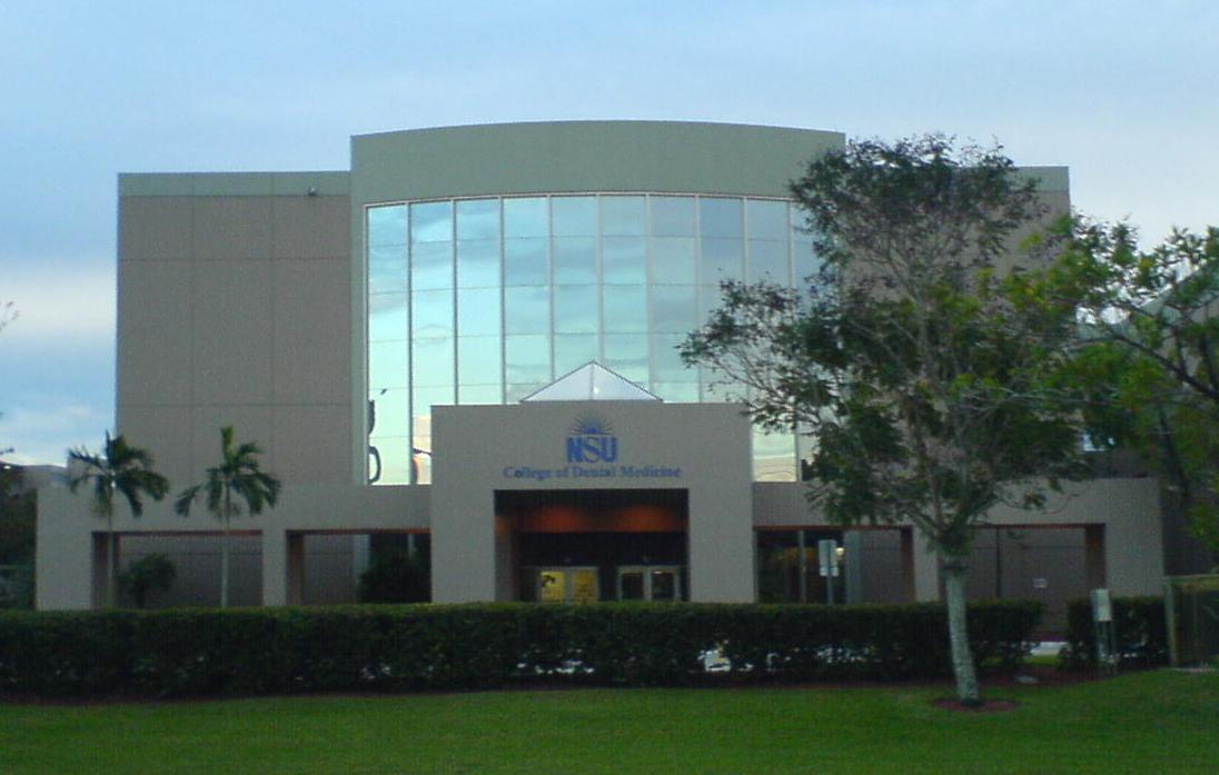 taken by User:Butnotthehippo Exterior of dental building at Nova Southeastern University